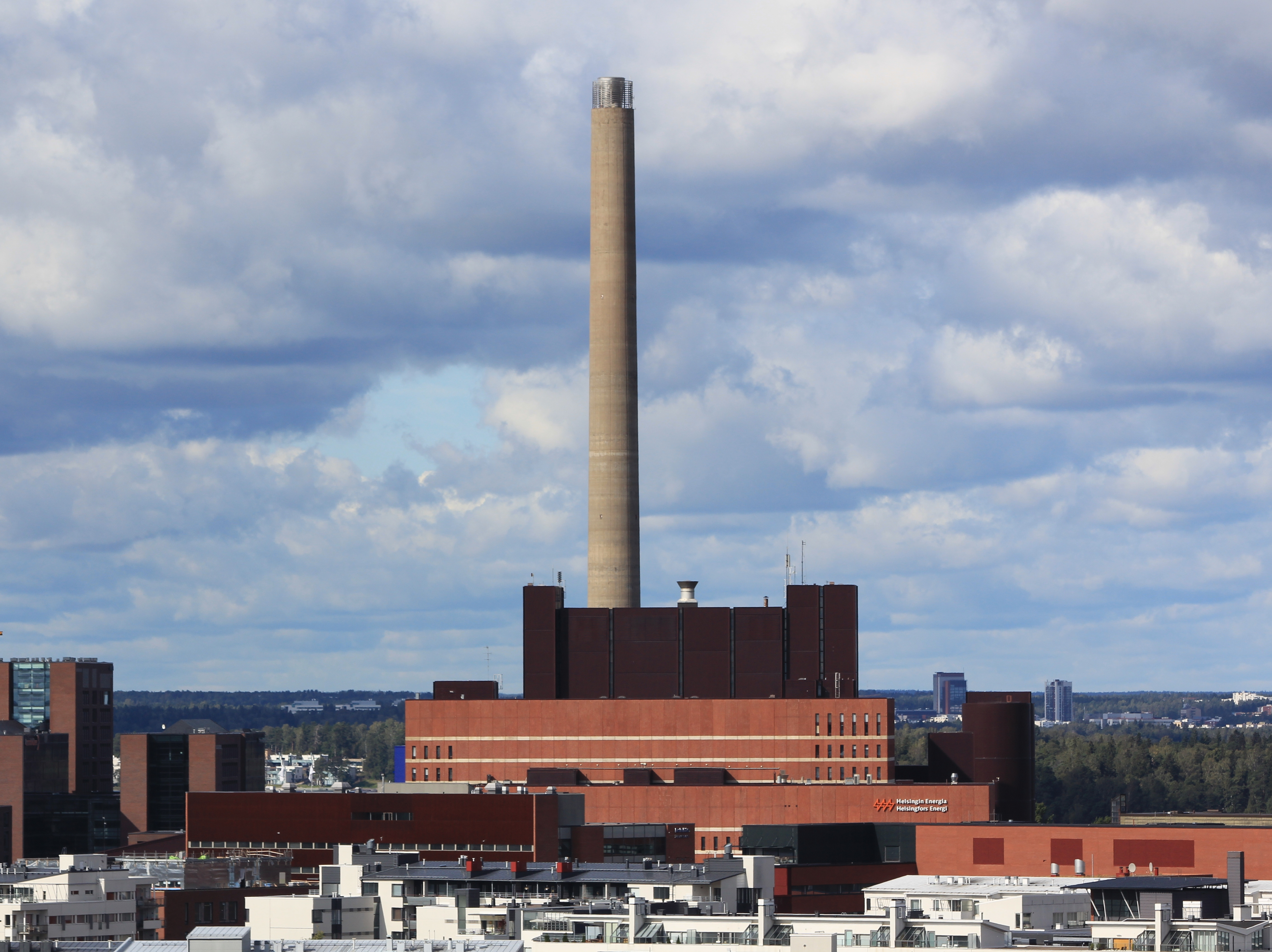 Salmisaari power plant photographed from Verkkokauppa building observation terace in Jätkäsaari.